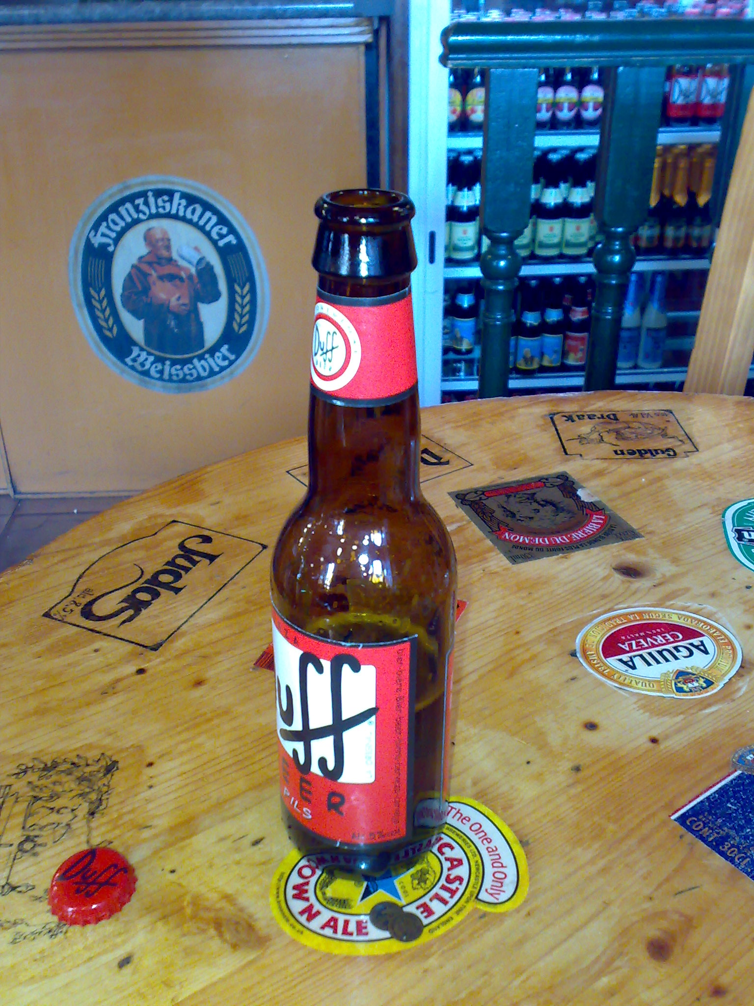 Duff BEER in Madrid's pub (Mayor Street